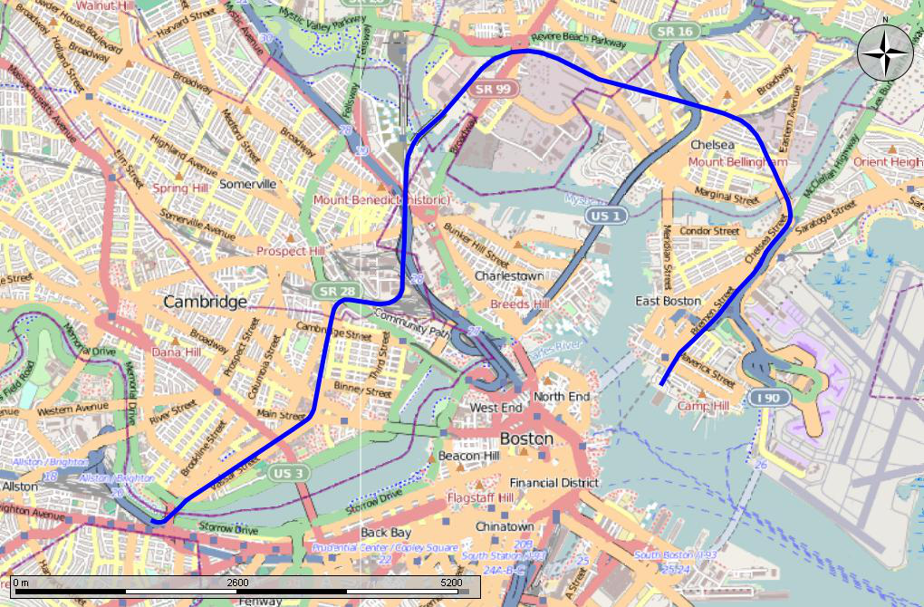 I downloaded the KML file from the wikipedia article, loaded into the Marble program, and used an Open Street Map of Boston as a base for this image. Shows the Grand Junction Railroad and Depot Company.